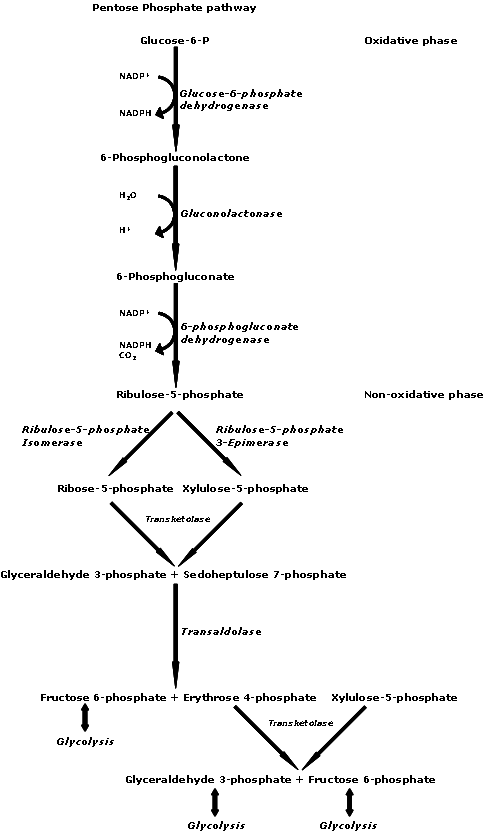 Schematic figure of the Pentose Phosphate Pathway